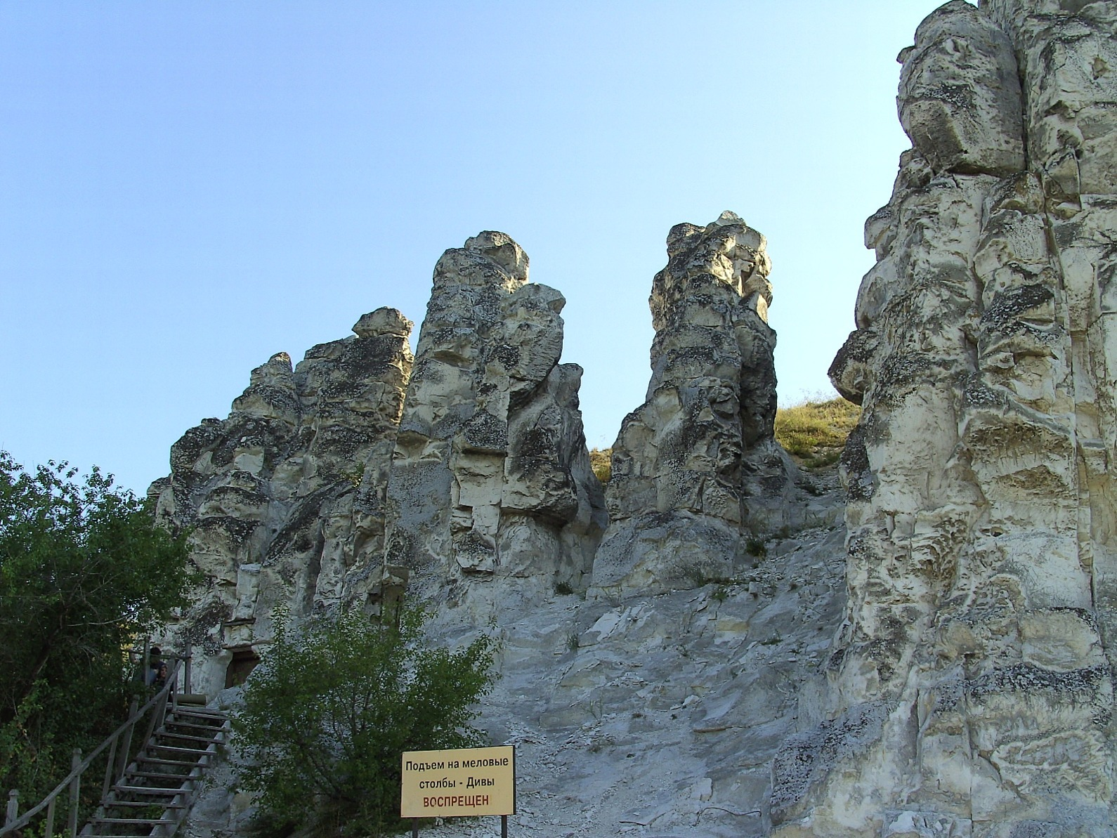 Chalk cliffs in Divnogorye.